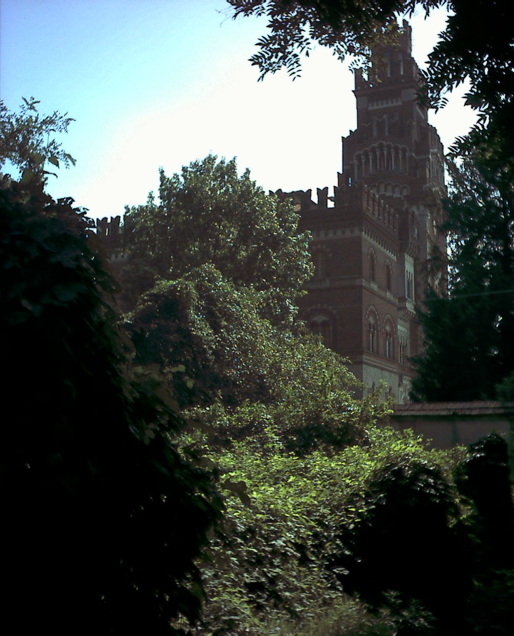 The Crespi residence, or "castle", at the industrial model village of Crespi d'Adda.